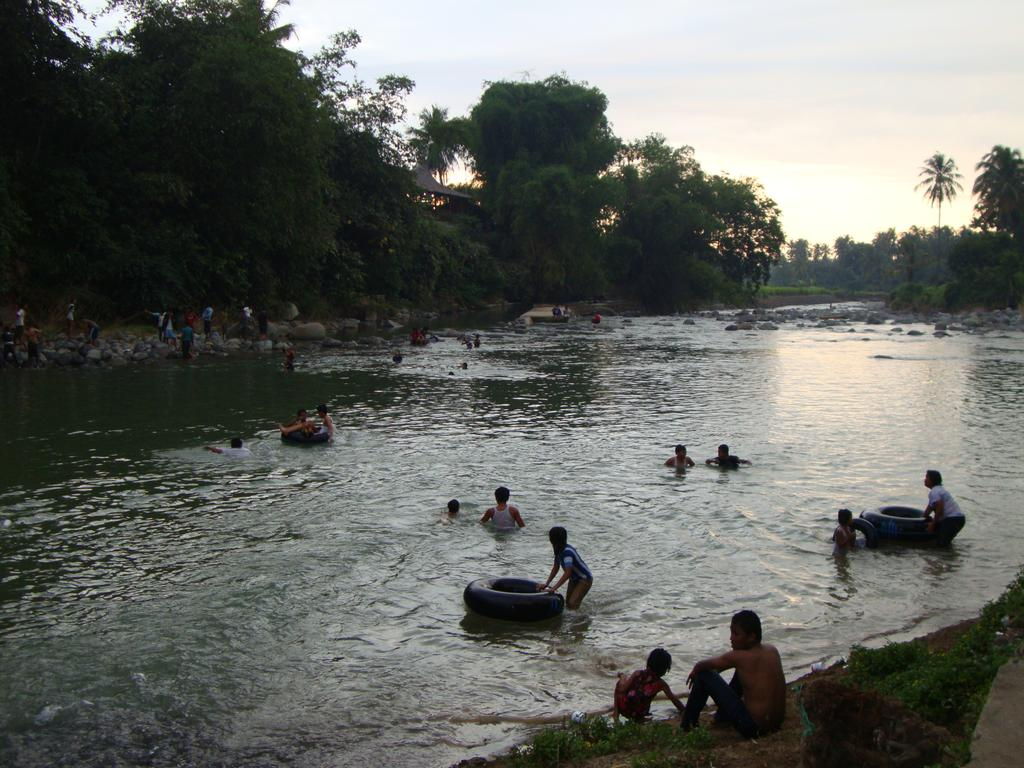 Lubuk Minturun river, at Padang